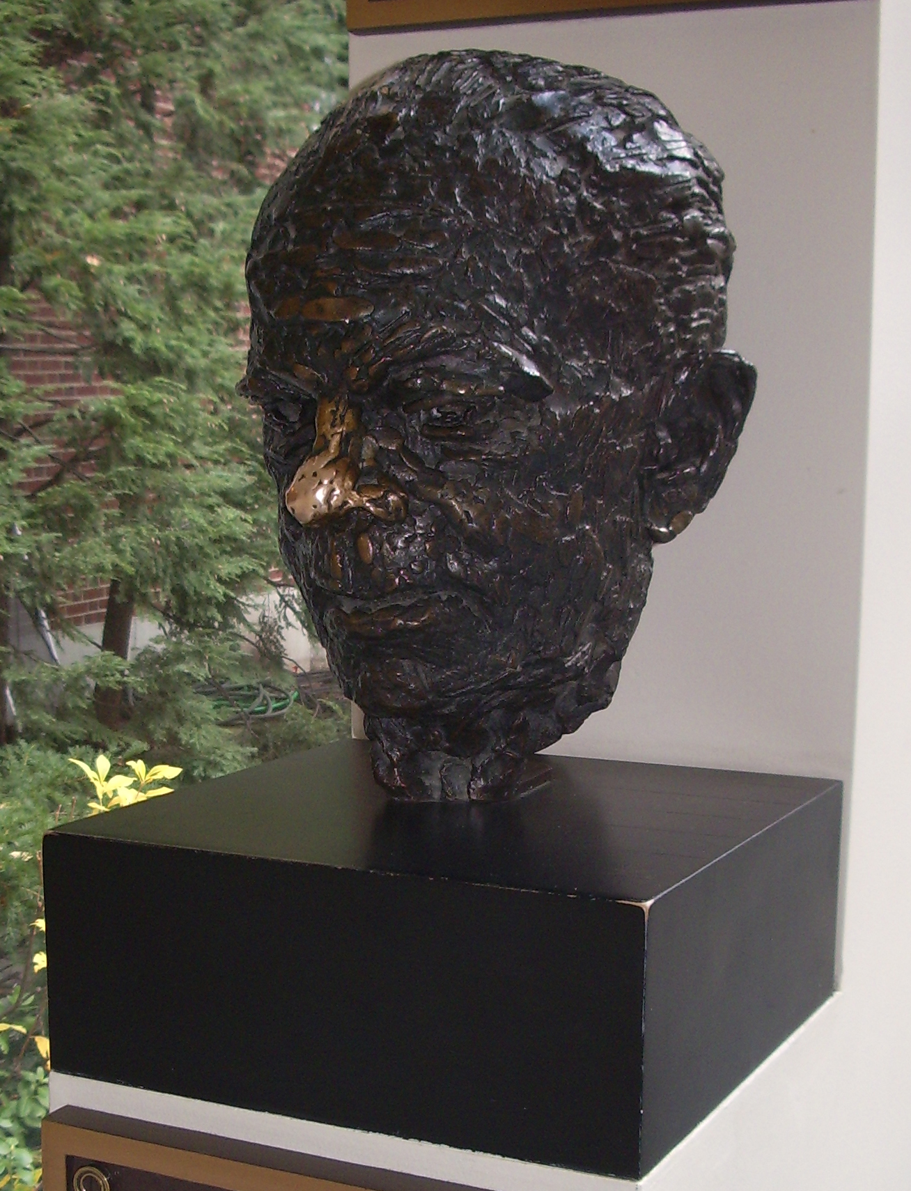 Photograph of the statue of Warner Bentley in the Hopkins Center for the Arts at Dartmouth College in Hanover, New Hampshire. Students rub the nose for good luck, resulting in its discoloration.